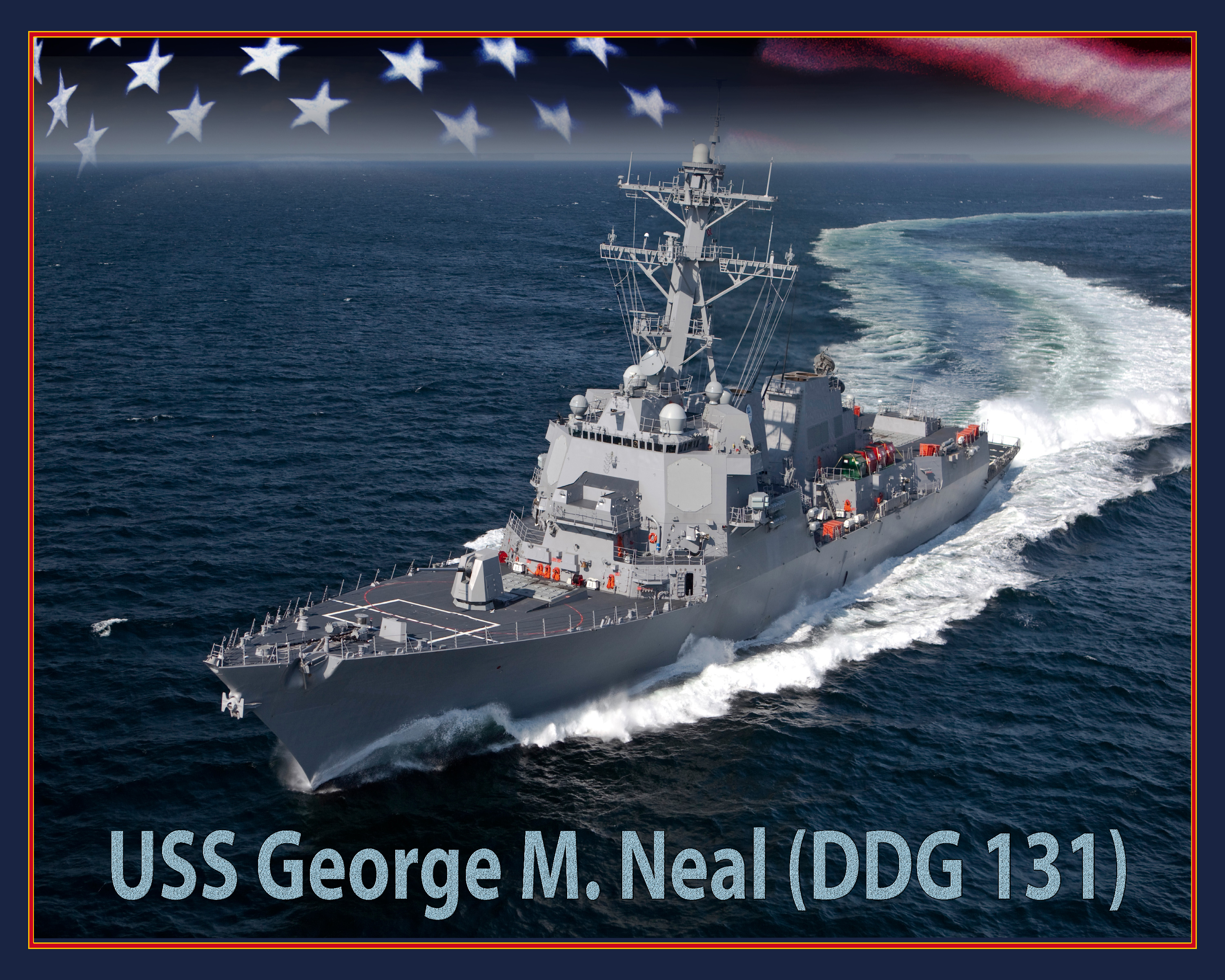 190215-N-DM308-002 WASHINGTON (Feb. 15, 2019) An artist rendering of the future Arleigh Burke-class guided-missile destroyer USS George M. Neal (DDG 131). (U.S. Navy photo illustration/Released)